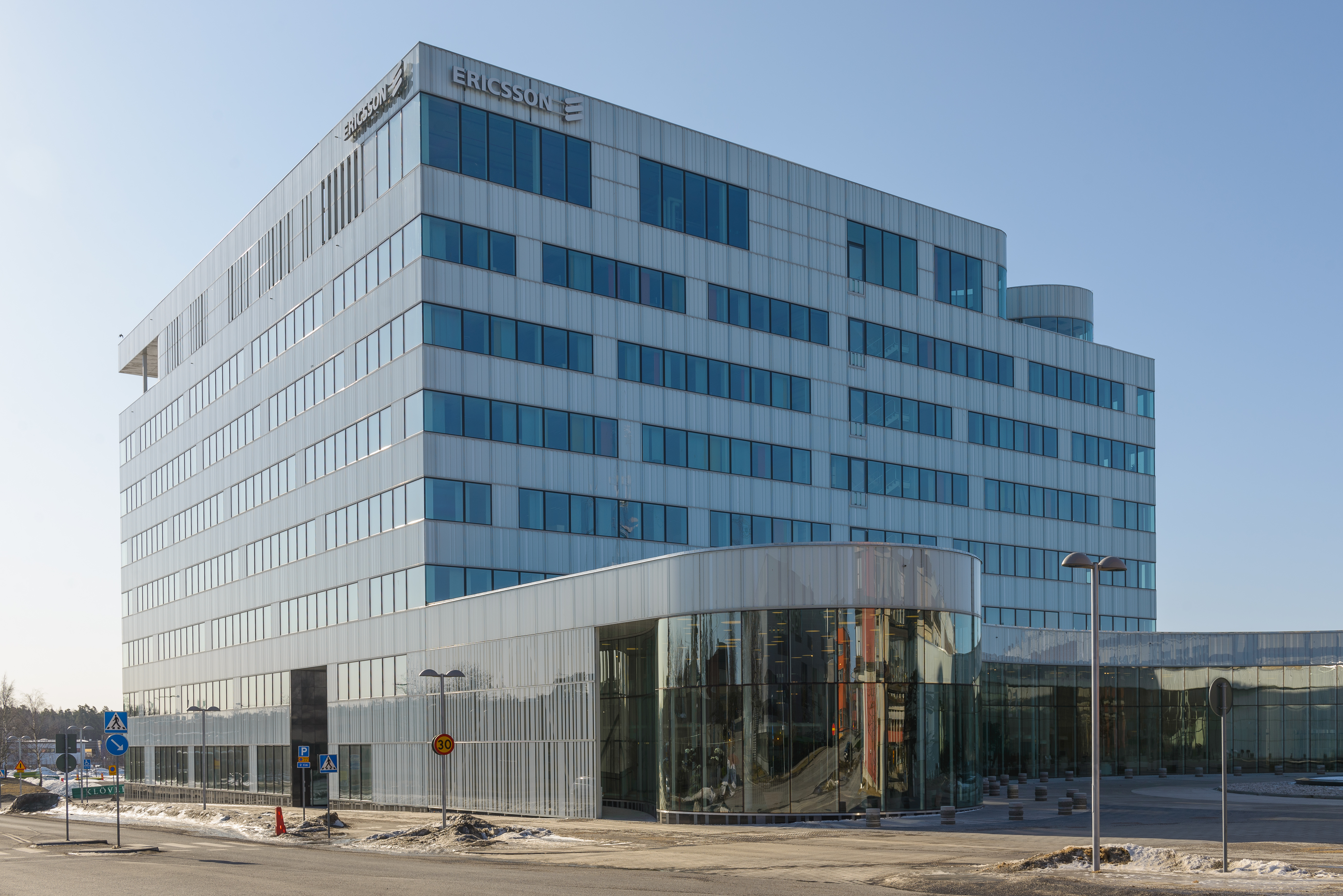 Isafjord 1, new HQ for Ericsson in Kista, Stockholm. Built 2012. Arcitect: Wingårdh arkitektkontor.